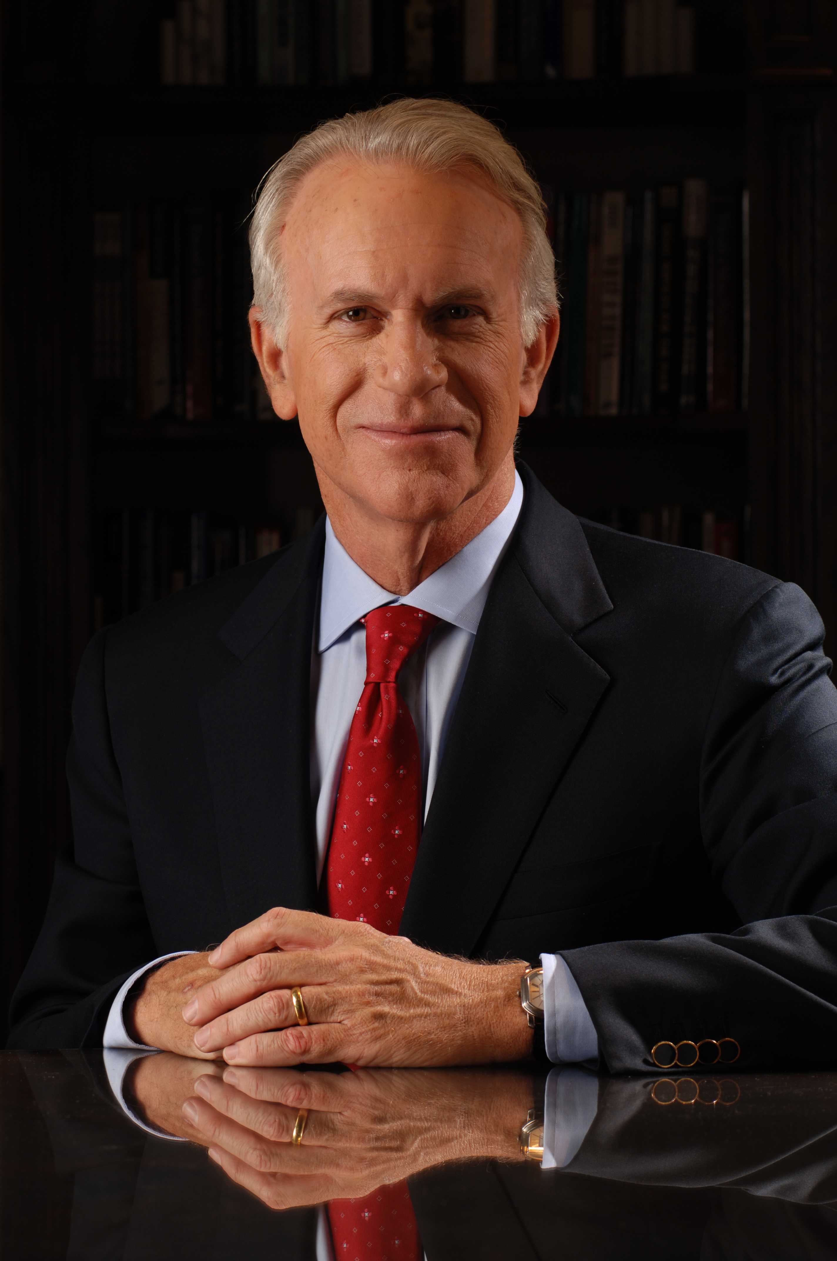 Author and journalist James K. Glassman.